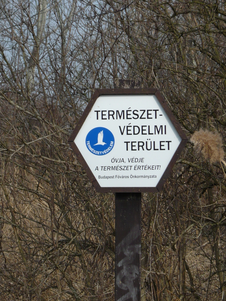 Nature Reserve sign near Lake Naplás in the 16th district of Budapest